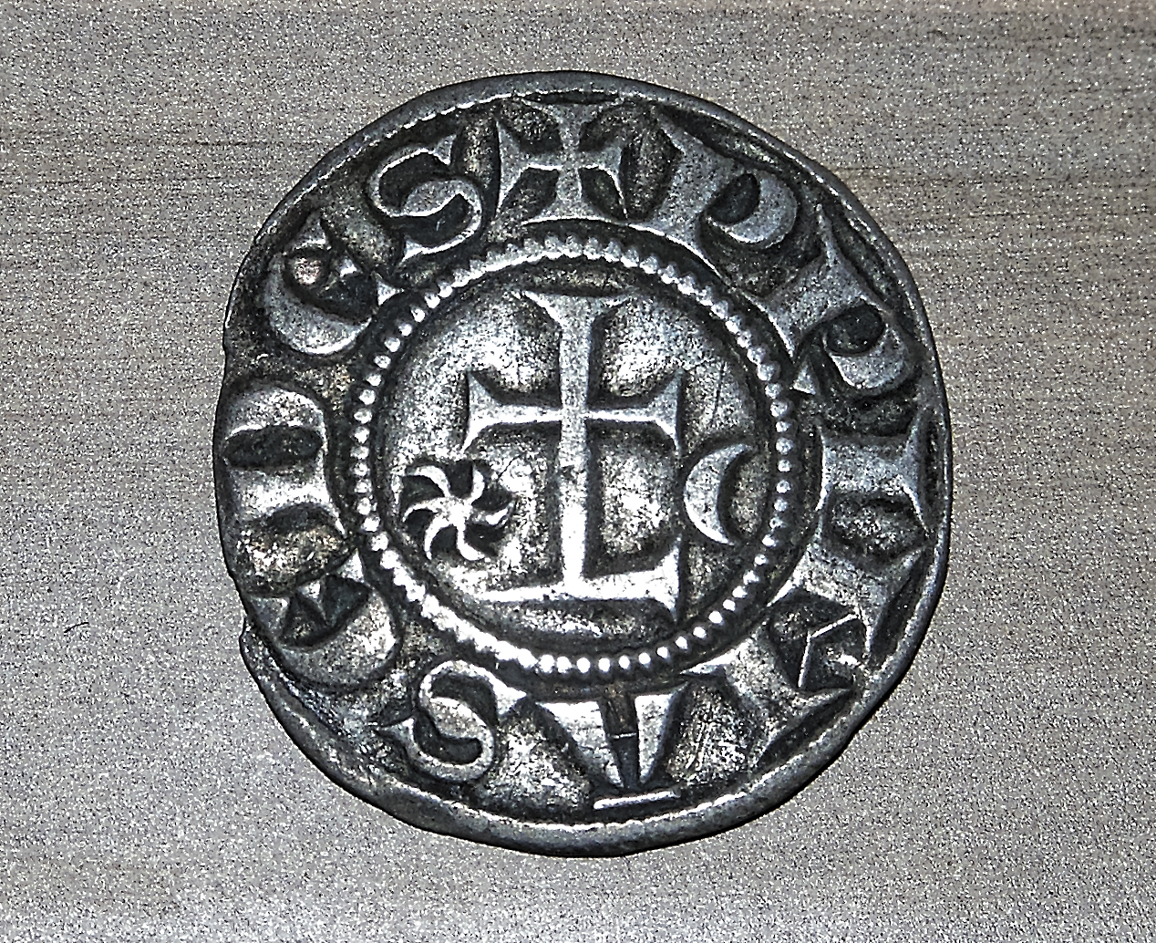 Fort lyonnais, monnaie anonyme frappée pour le compte de l'église de Lyon, archevêque et chapitre de chanoines entre le 11 et le 14e siècle. Conservé au médailler du Musée des beaux-arts de Lyon ; salle publique.